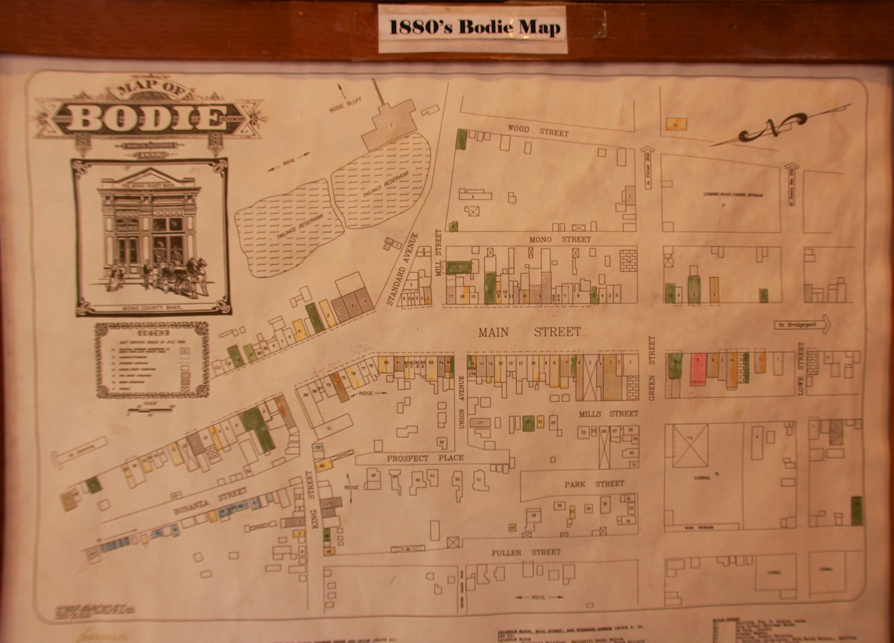 Miner's Union Hall @ Bodie State Historical Park, California